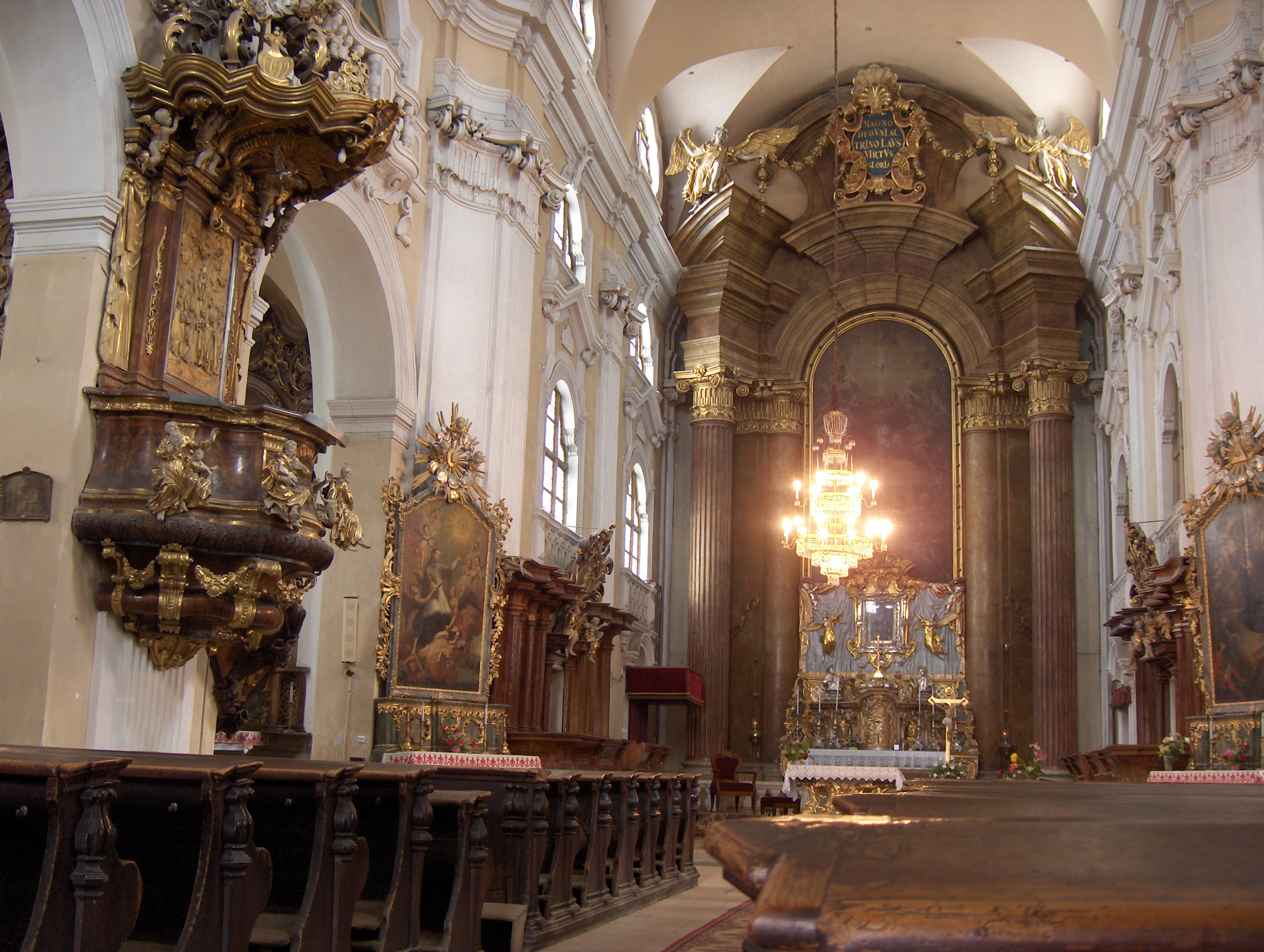 The interior of the baroque Piarist Church in Cluj-Napoca